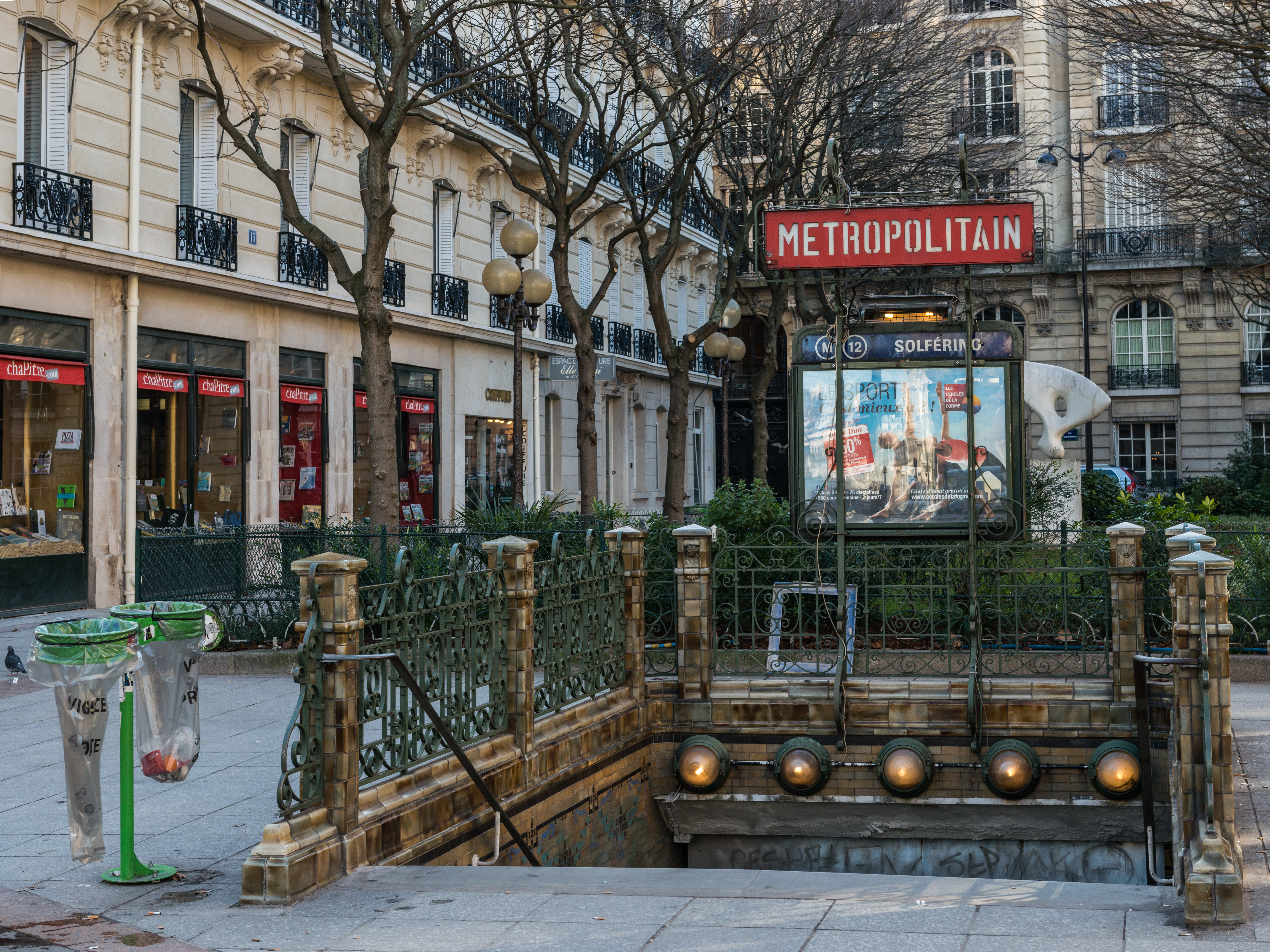 One of the entrances to the Solférino station of the Paris Métro